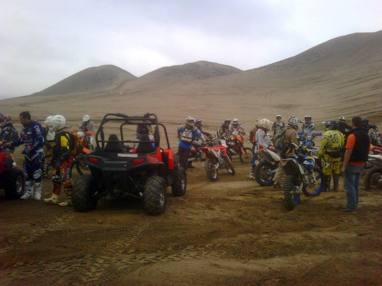 Quads in San Bartolo, Peru.